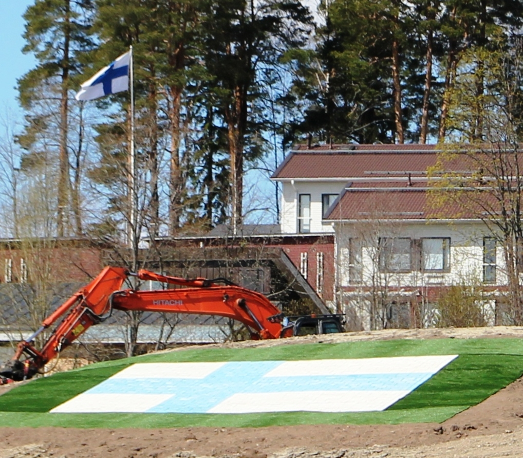 Flag of Finland in Nummela, Vihti, Finland, to honour Finland 100 years.